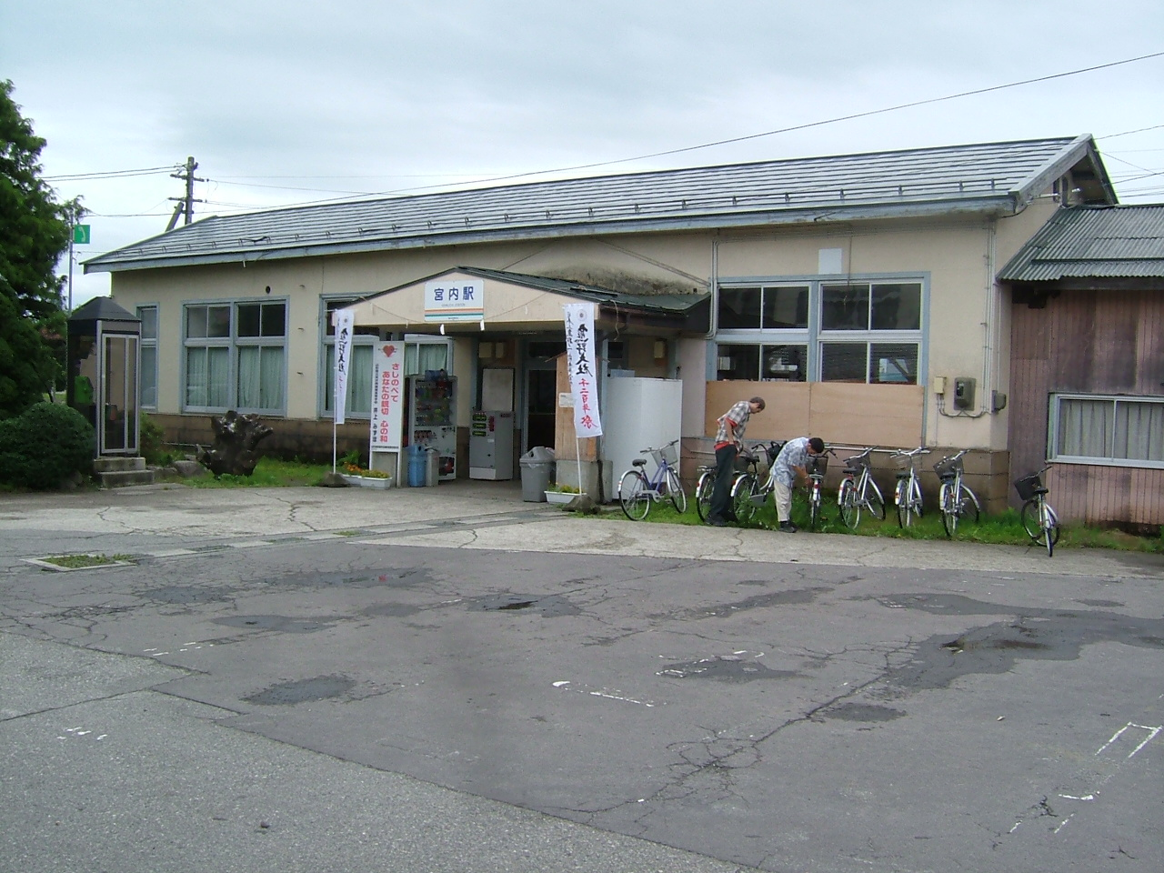 This is a photo of Miyauchi Station in Yamagata Prefecture. I took this photo with a digital camera on 25th July 2006.